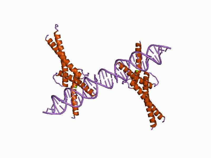 Cartoon representation of the molecular structure of protein registered with 1am9 code.